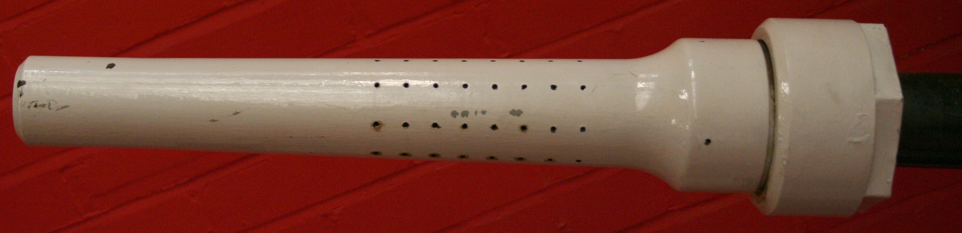 Photograph of Littlejohn adaptor, the squeezebore attachment for the QF 2 pounder gun on the Tetrarch tank, World War II.